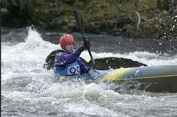 Canoe-Kayak White Water Racing at Grandtully, Scotland